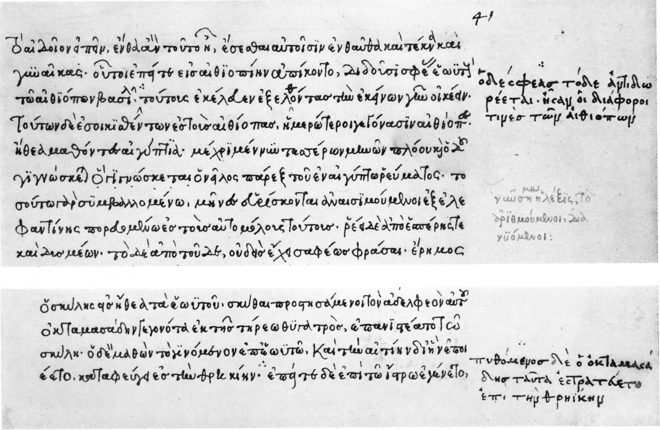 Herodotus, Histories. With marginalia by humanist Lorenzo Valla. Vatican library, Vat. gr. 122, fol. 41r und 122r.